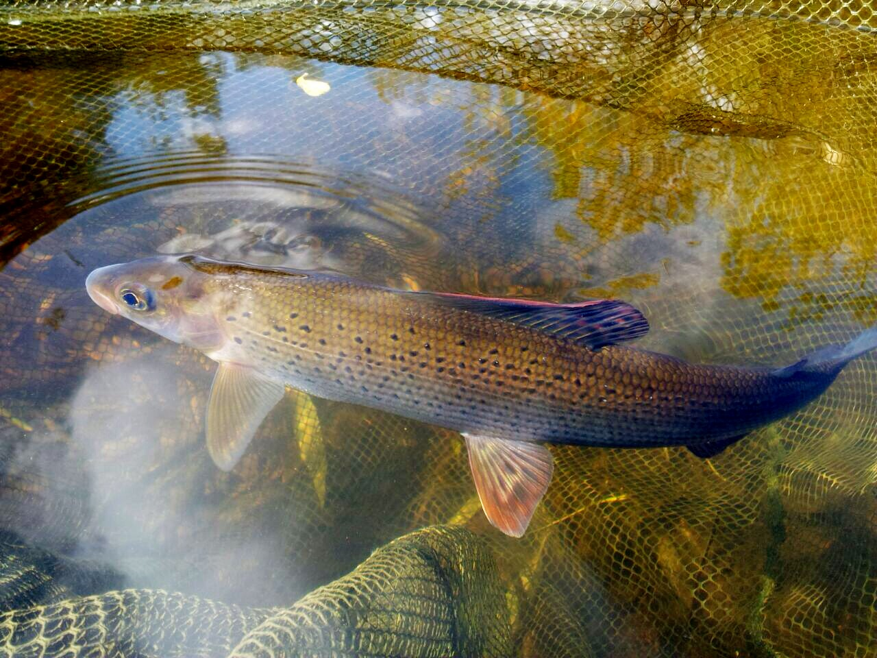 Grayling caught in the Rive Wye on the English / Welsh border